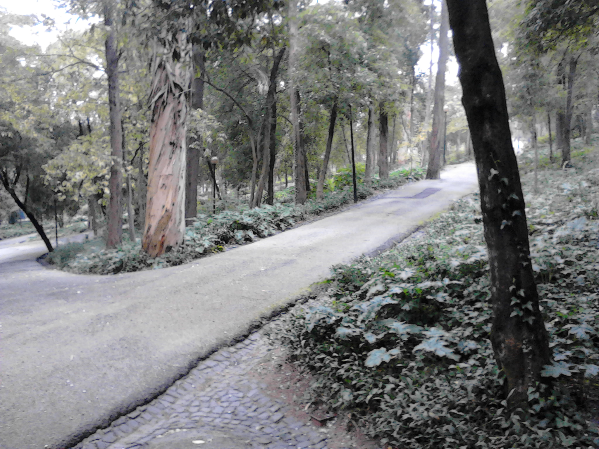 Some trees like Eucalyptus